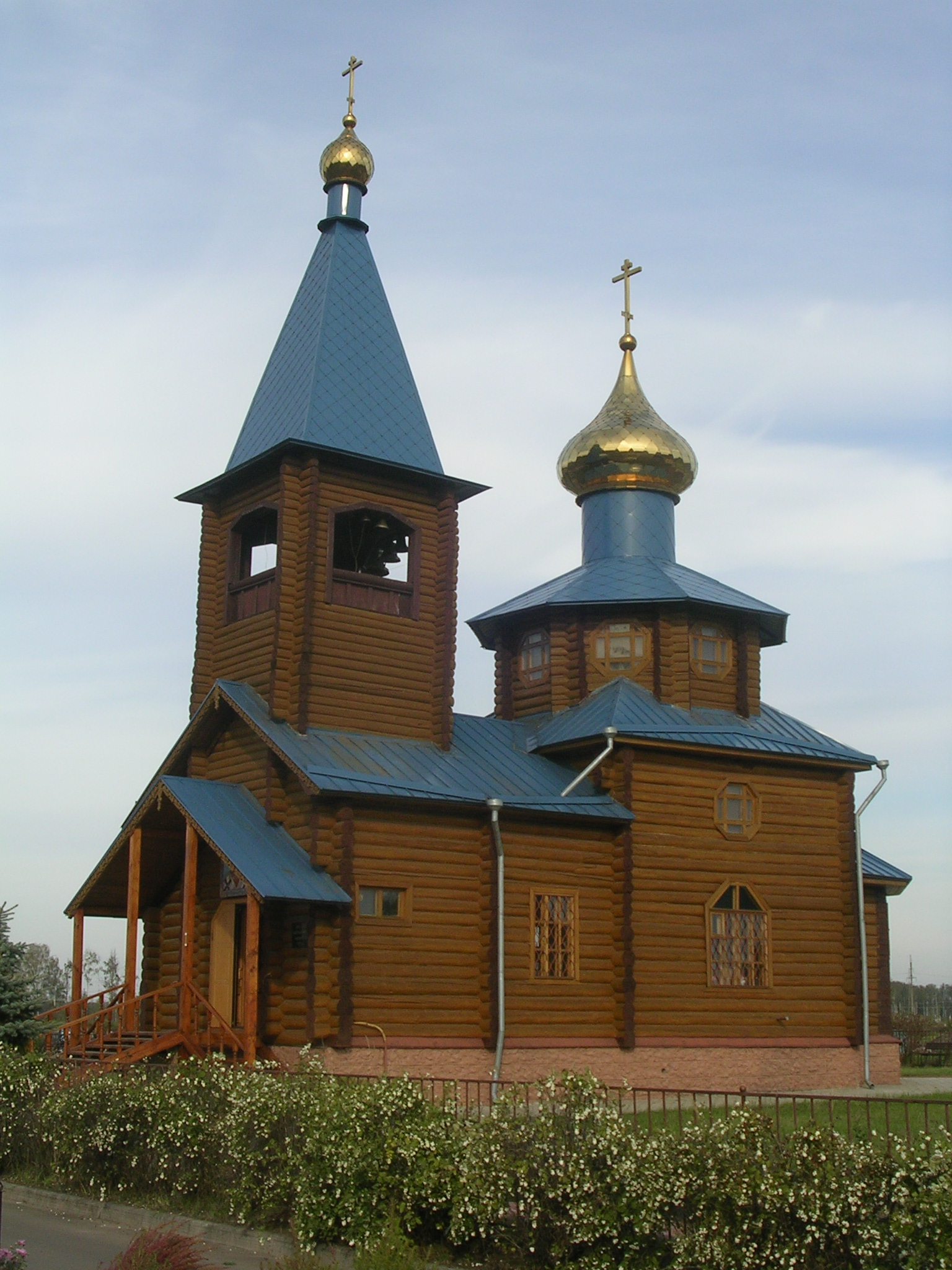 Saint Nicholas Temple near Timokhovo, Noginsk district of Moscow region in Russia.